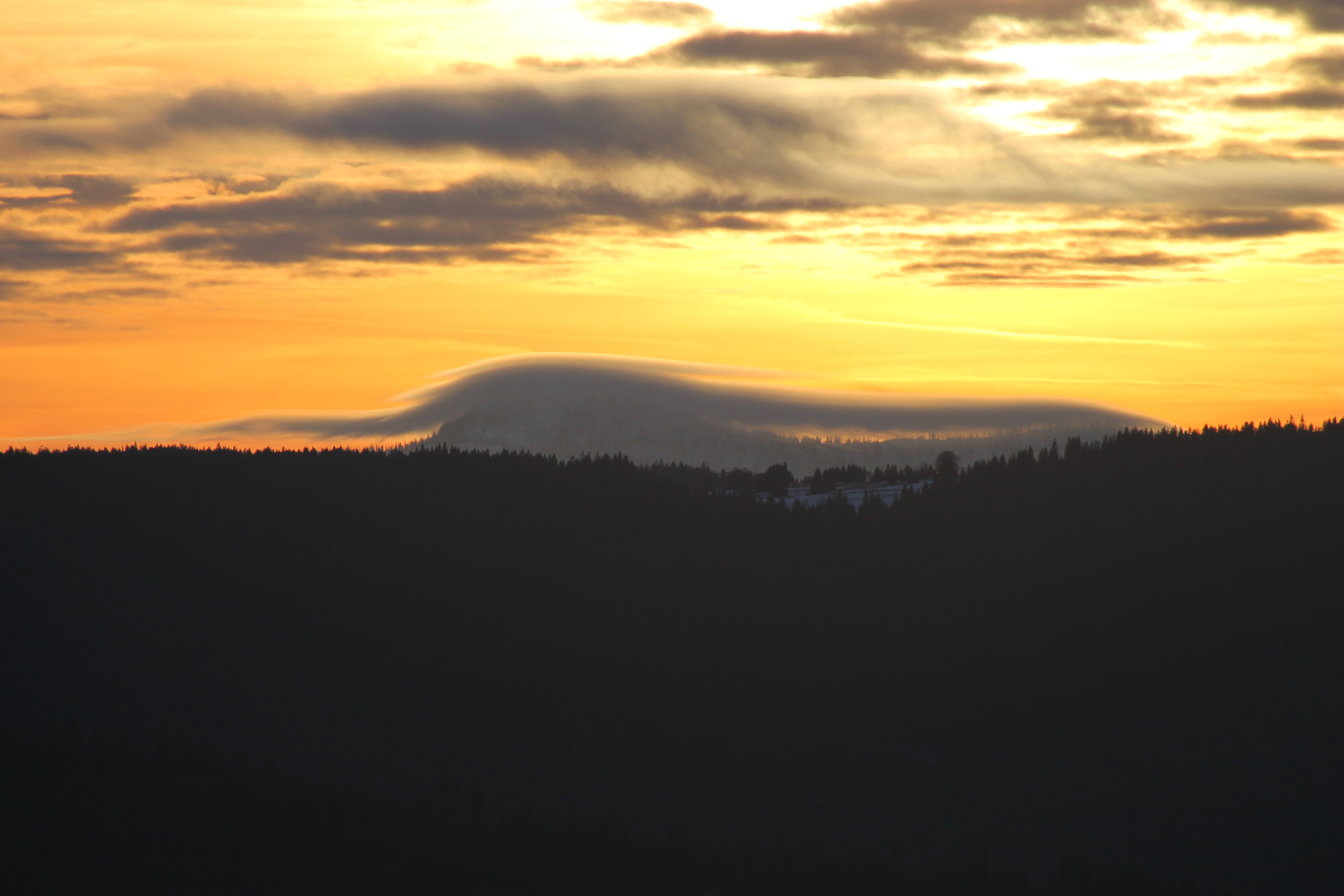 Peak of Großer (left) and Kleiner Rachel cover with Stratocumulus lenticularis cloud, view from the Klostermann's tower on Javorník Hill, Prachatice District, the Czech Republic